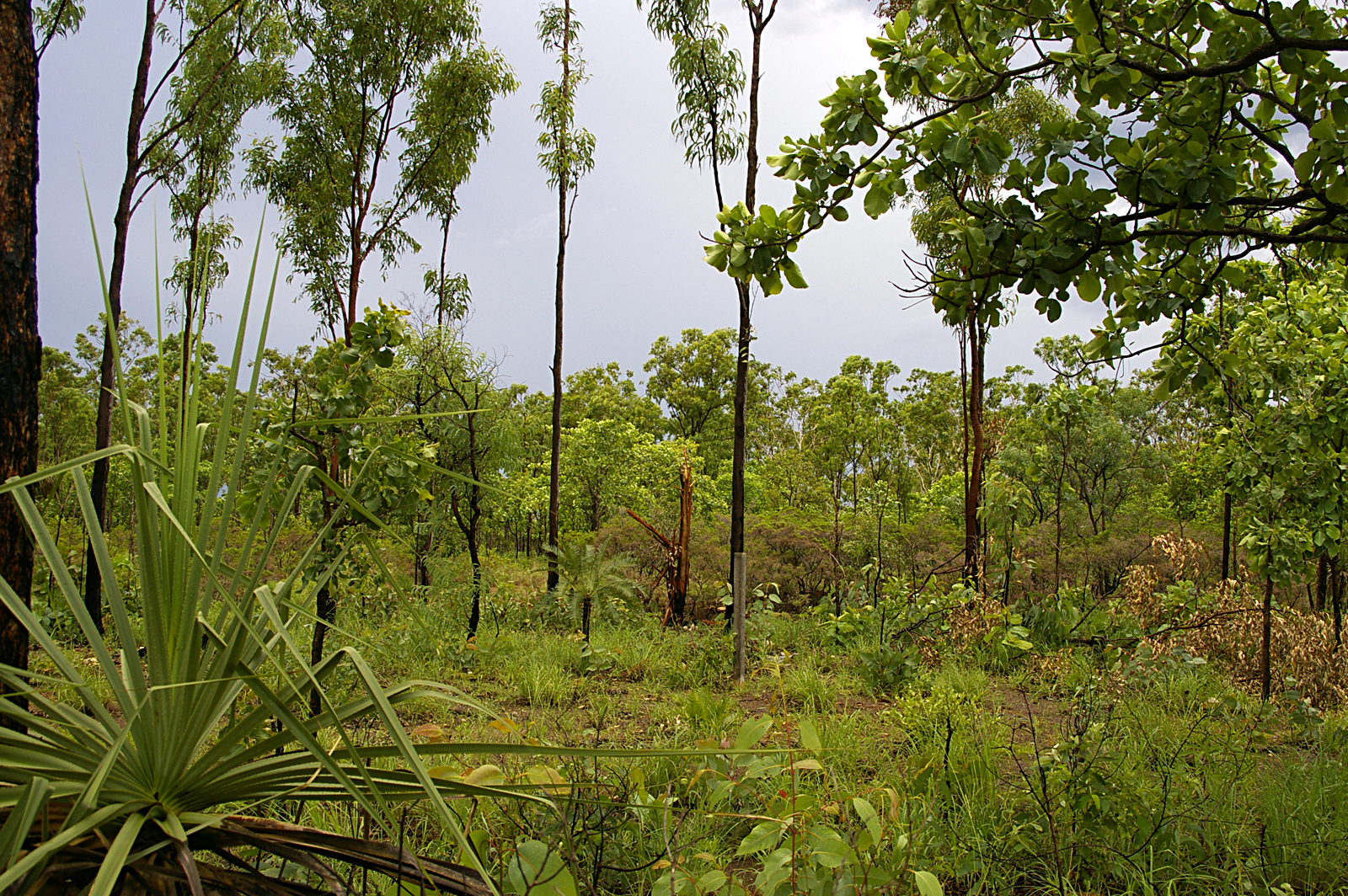 Tropical savanna in the Top End (Taken near Palmerston) in the Northern Territory, Australia.